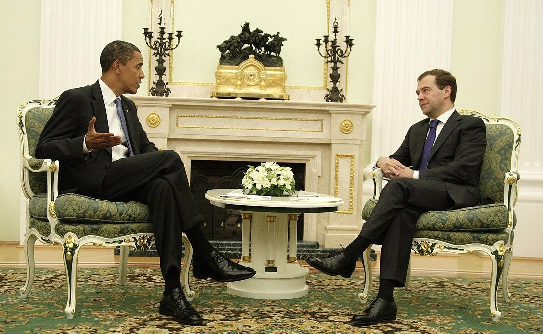 KREMLIN, MOSCOW . With US President Barack Obama